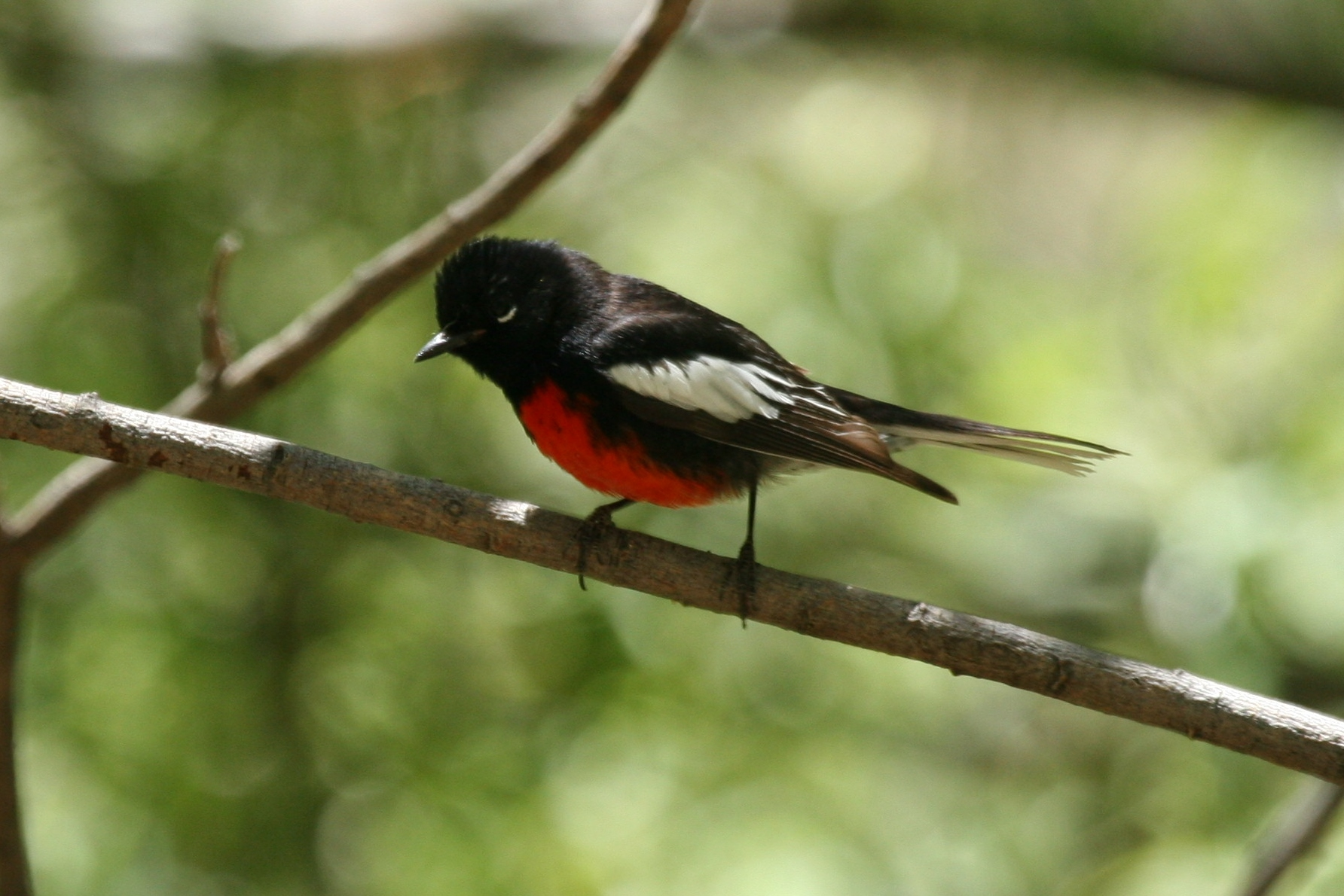 Painted Redstart (Myioborus pictus)